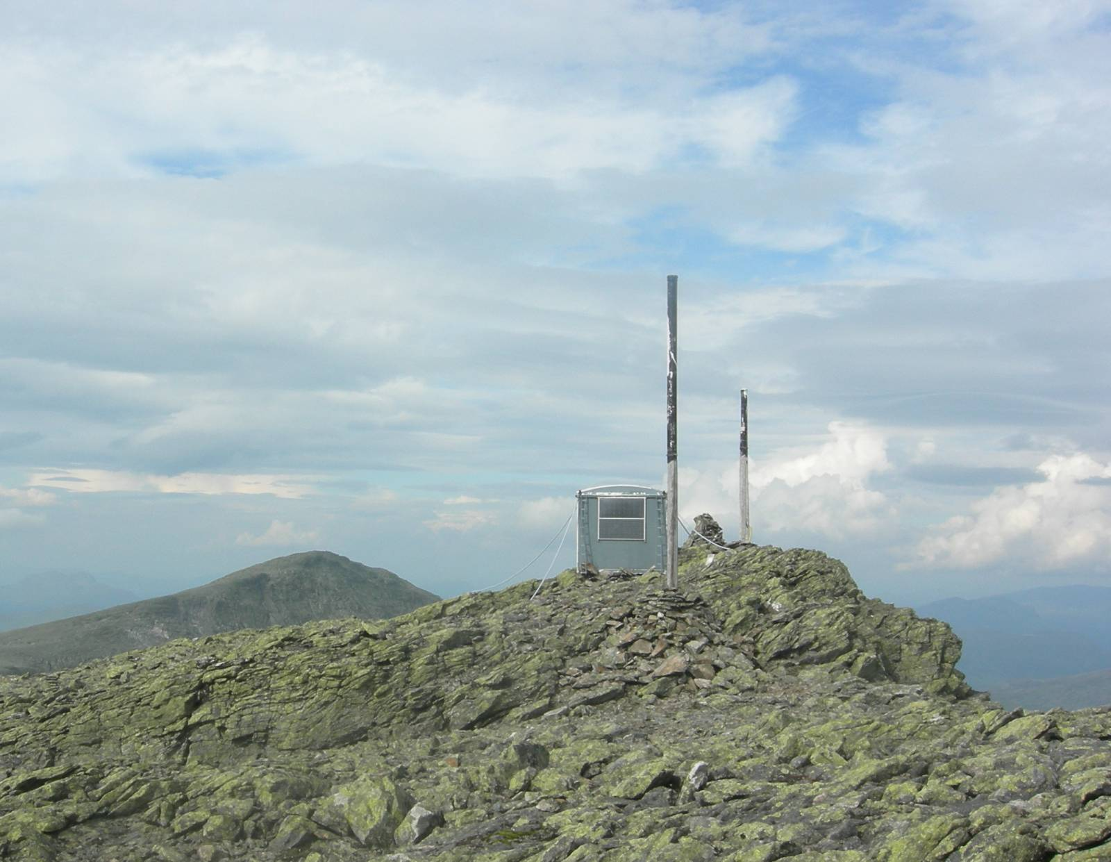 Marsfjället summit (1589 m), Marsfjällen Mts., Västerbotten/Lappland, Sweden